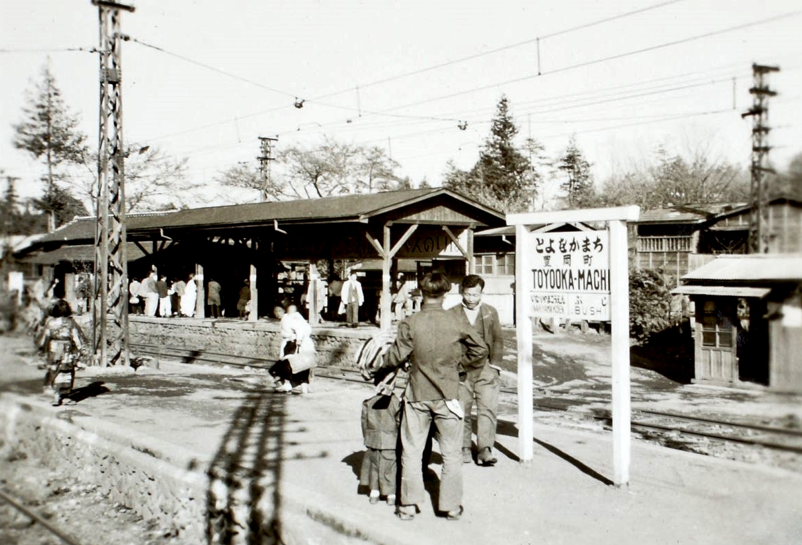 Toyooka-machi Station (present-day Irumashi Station) on the Seibu Ikebukuro Line